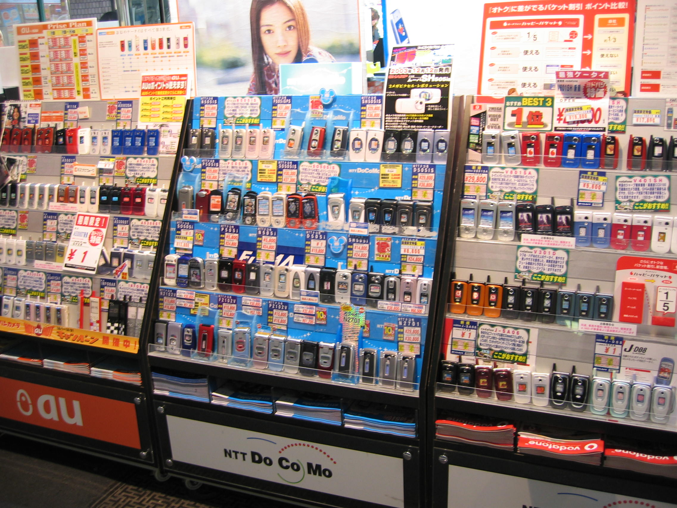 Dig the tech